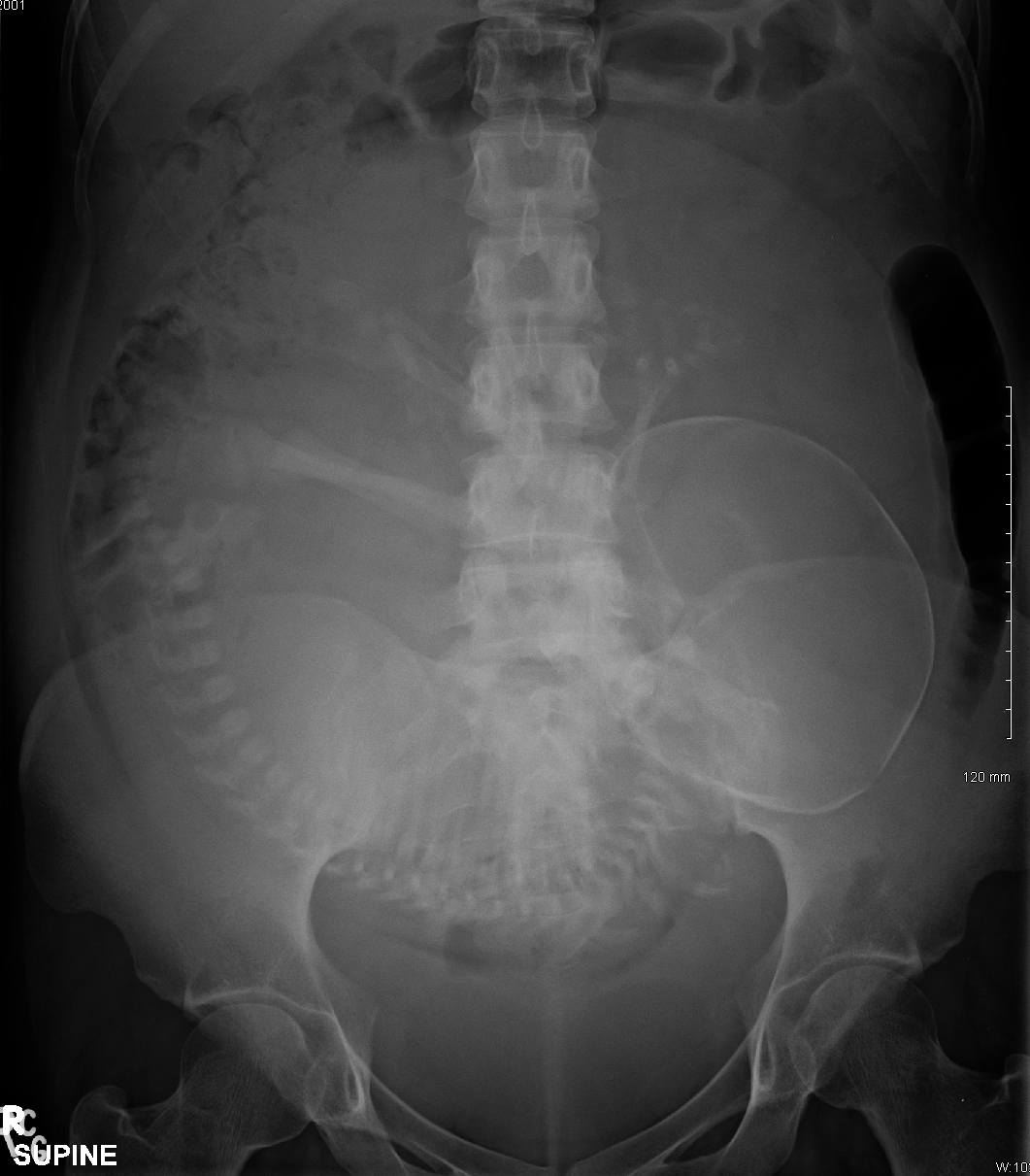 An X ray of a baby done to determine head position